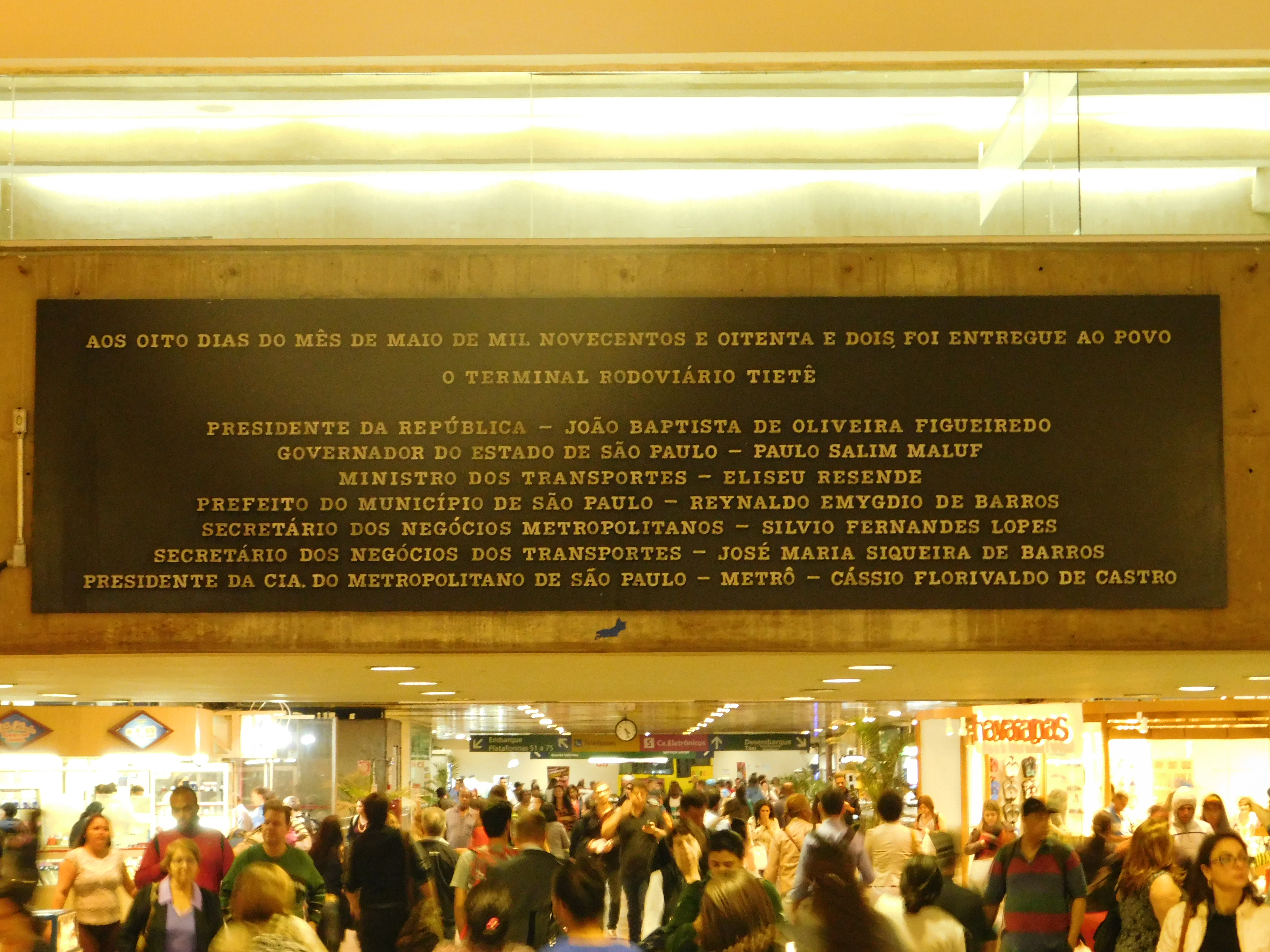 The Tietê Bus Terminal (Portuguese: Terminal Rodoviário Tietê) is the largest bus terminal in Latin America, and the second largest in the world, after the Port Authority Bus Terminal in New York City. The terminal is located in the Santana district in the city of São Paulo, Brazil. The official name in Portuguese is Terminal Rodoviário Governador Carvalho Pinto, named after Carlos Alberto Alves de Carvalho Pinto, a former Governor of the State of São Paulo.[